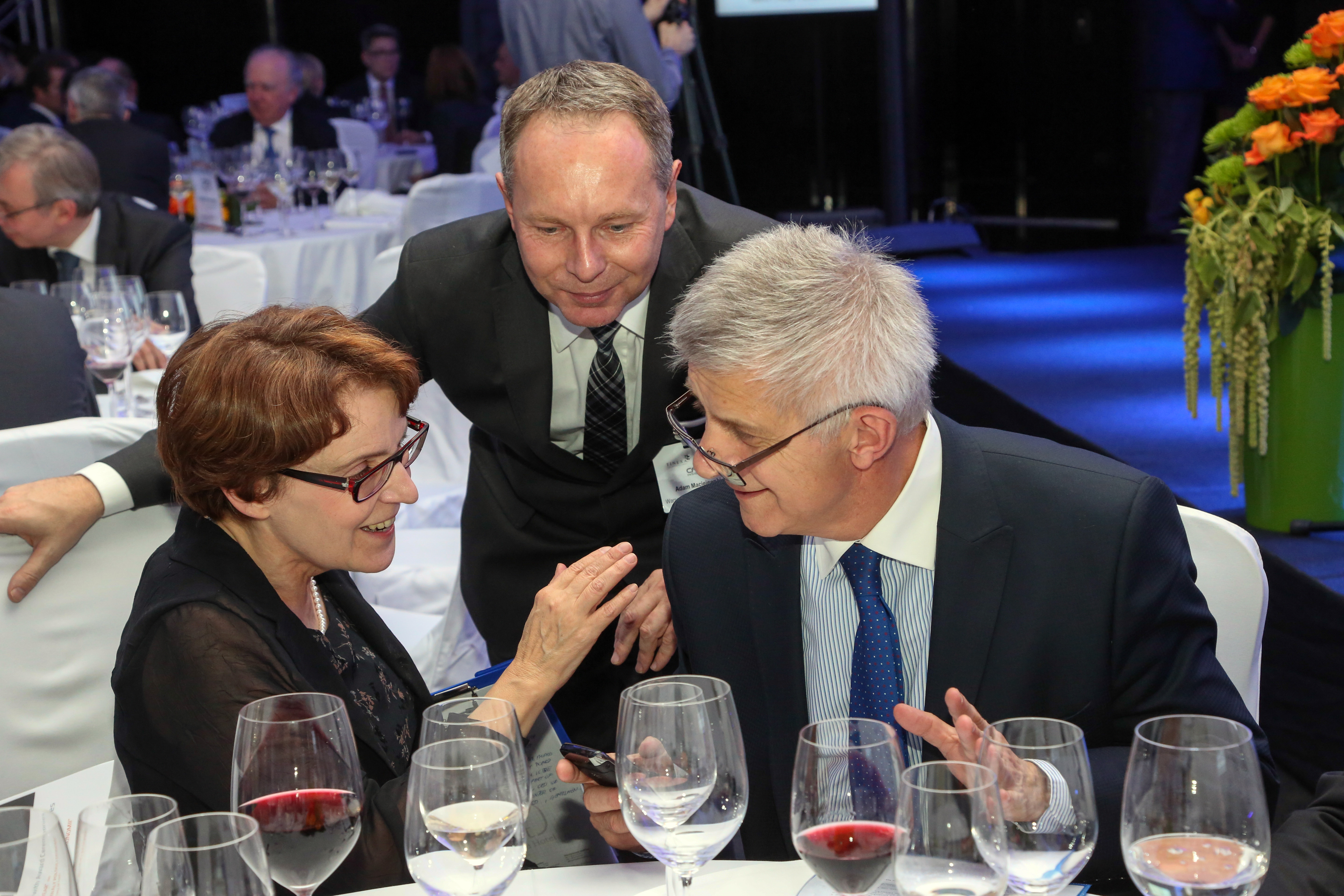 43rd IAFEI World Congress, gala dinner, 16.10.2013: Dorota Goliszewska, Adam Maciejewski, Marek Belka